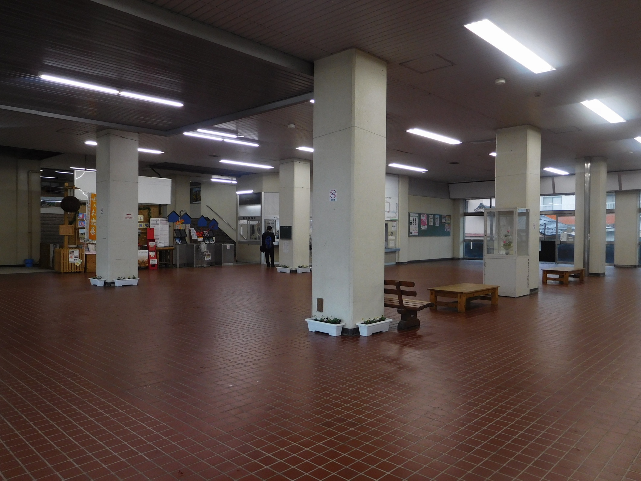 JR Kyushu Nippo Main Line - concourse of Nishi-Miyakonojo Station (Miyakonojo City, Miyazaki Prefecture, Japan)